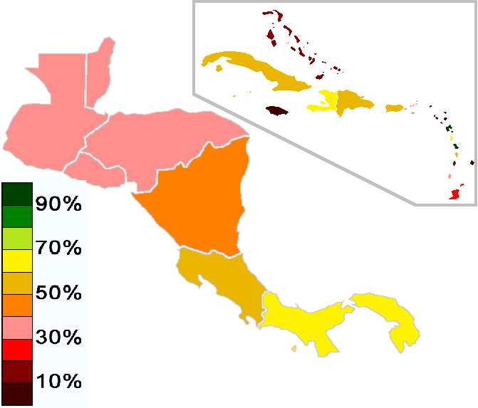 Map of Catholic population percentages in Central America